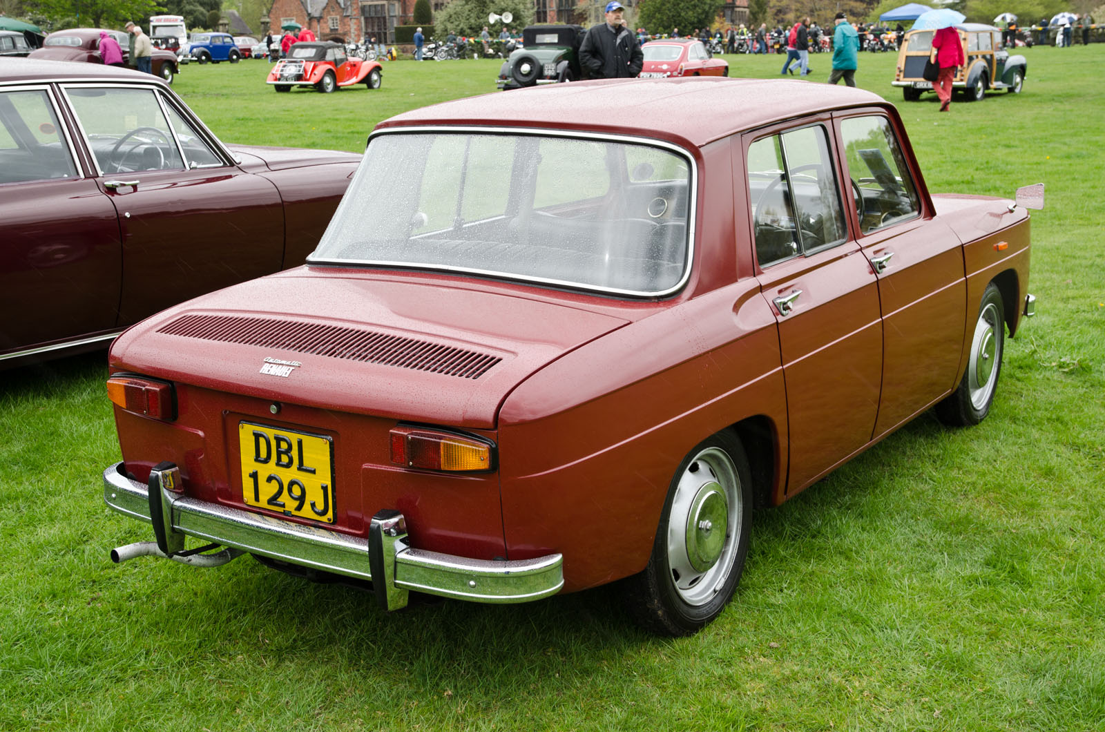 Vale Royal Classic Car Show at Arley Hall 12/05/2013